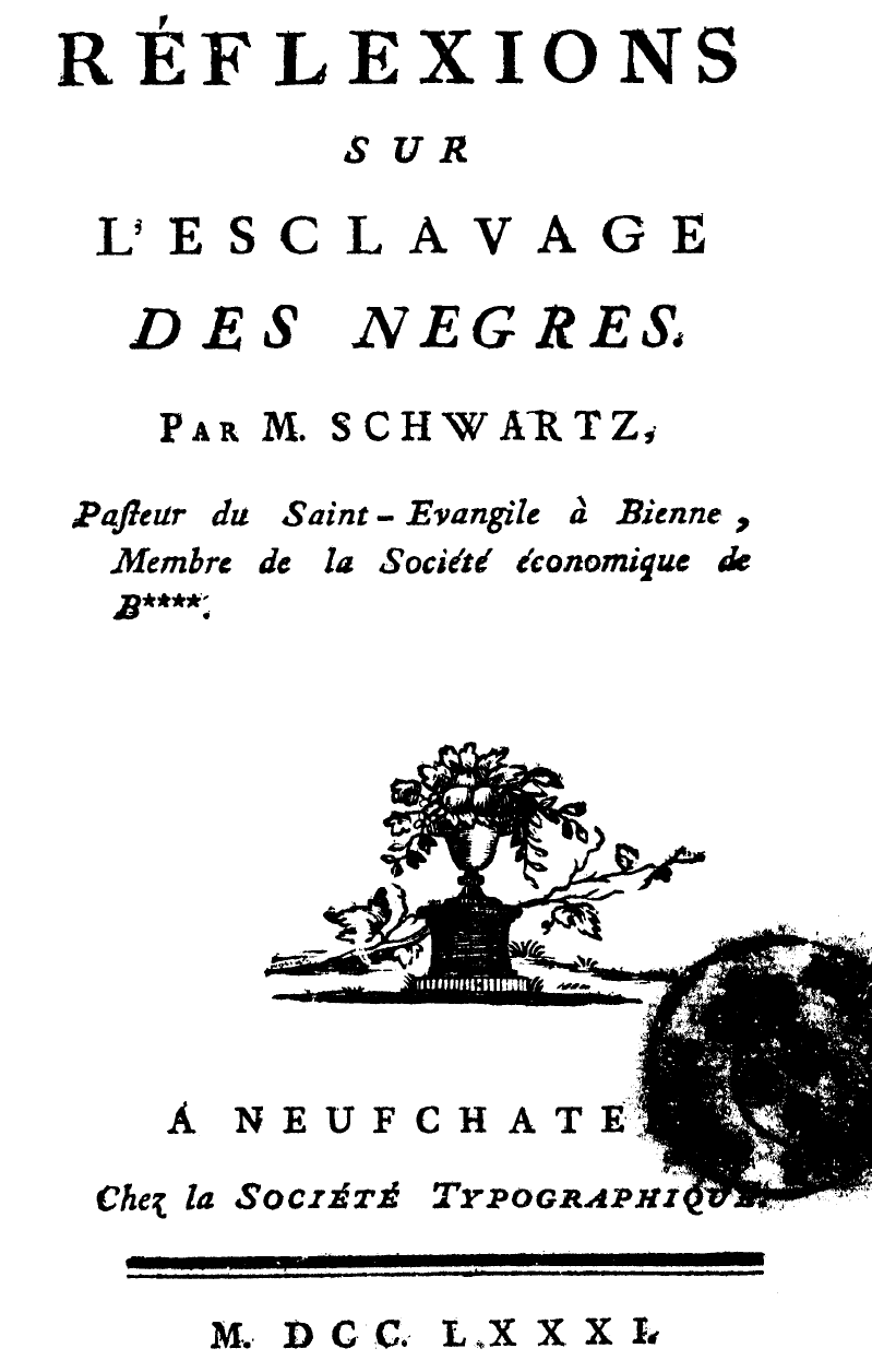 Title page of Réflexions sur l'esclavage by Condorcet.